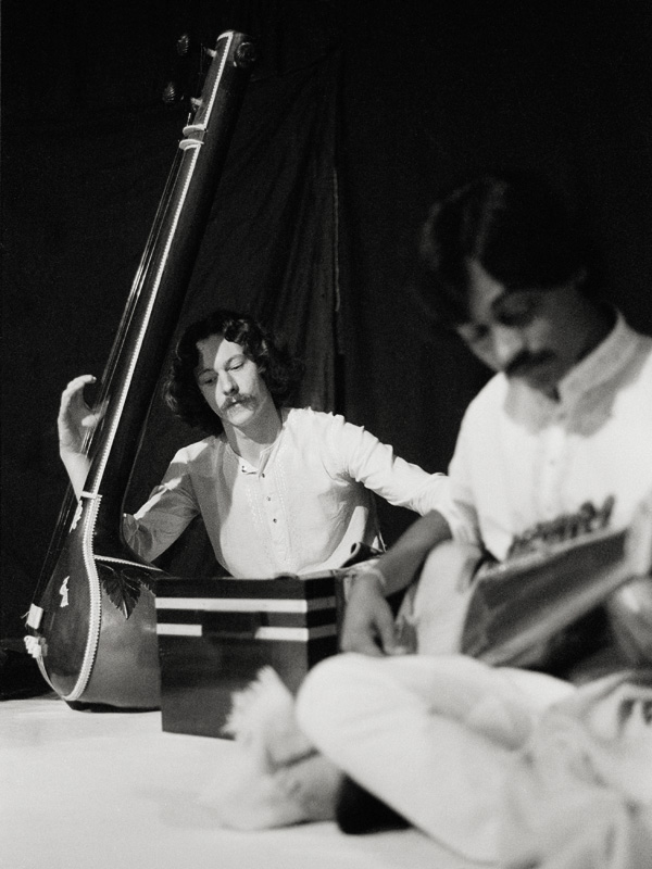 Music Ensemble of Benares, classical indian music Günther Paust, tamboura + harmonium Vikash Maharaj, sarod Moers, Germany, 1983